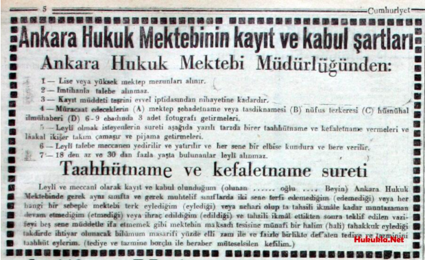 Admissin Conditions of Ankara Law School